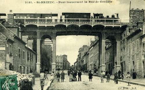 Bridge over Gouëdic street in Saint-Brieuc (Britanny, France), built for the Chemin de fer des Côtes-du-Nord, a former local railway company